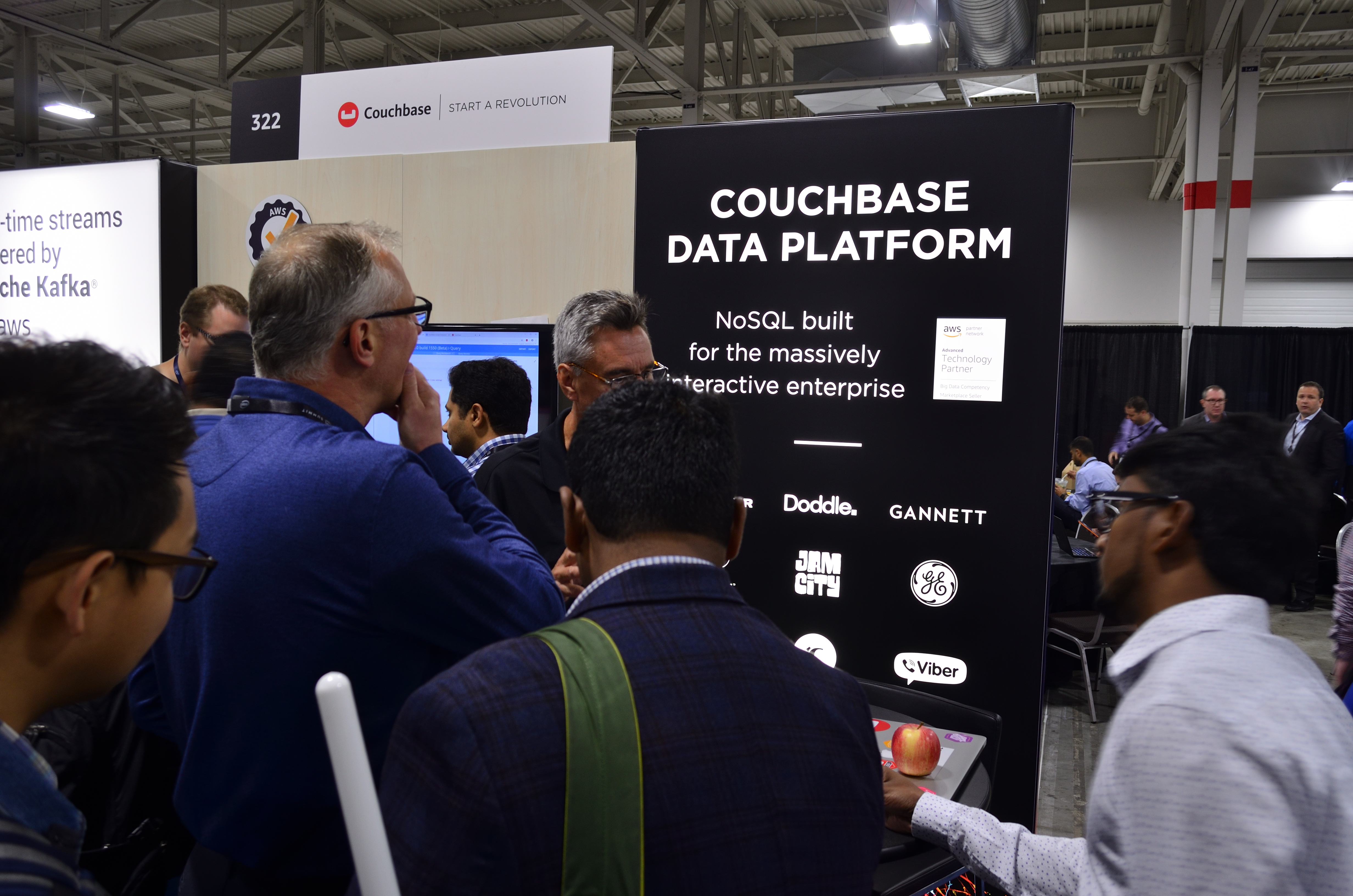 Couchbase at AWS Toronto Summit 2018